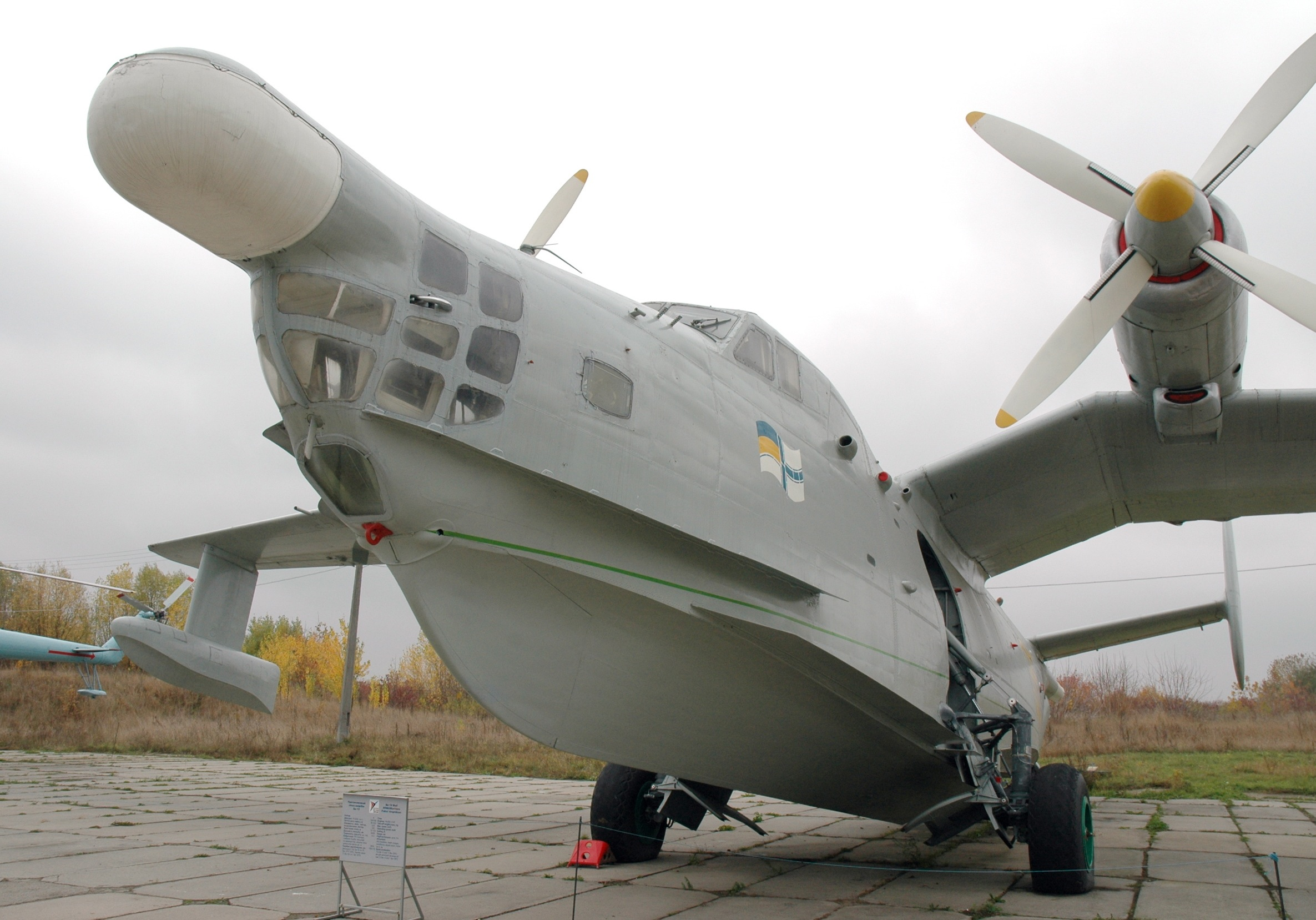 Beriev Be-12 amphibious anti-submarine and maritime patrol aircraft, displayed at the Ukrainian State Aviation Museum, Kyiv